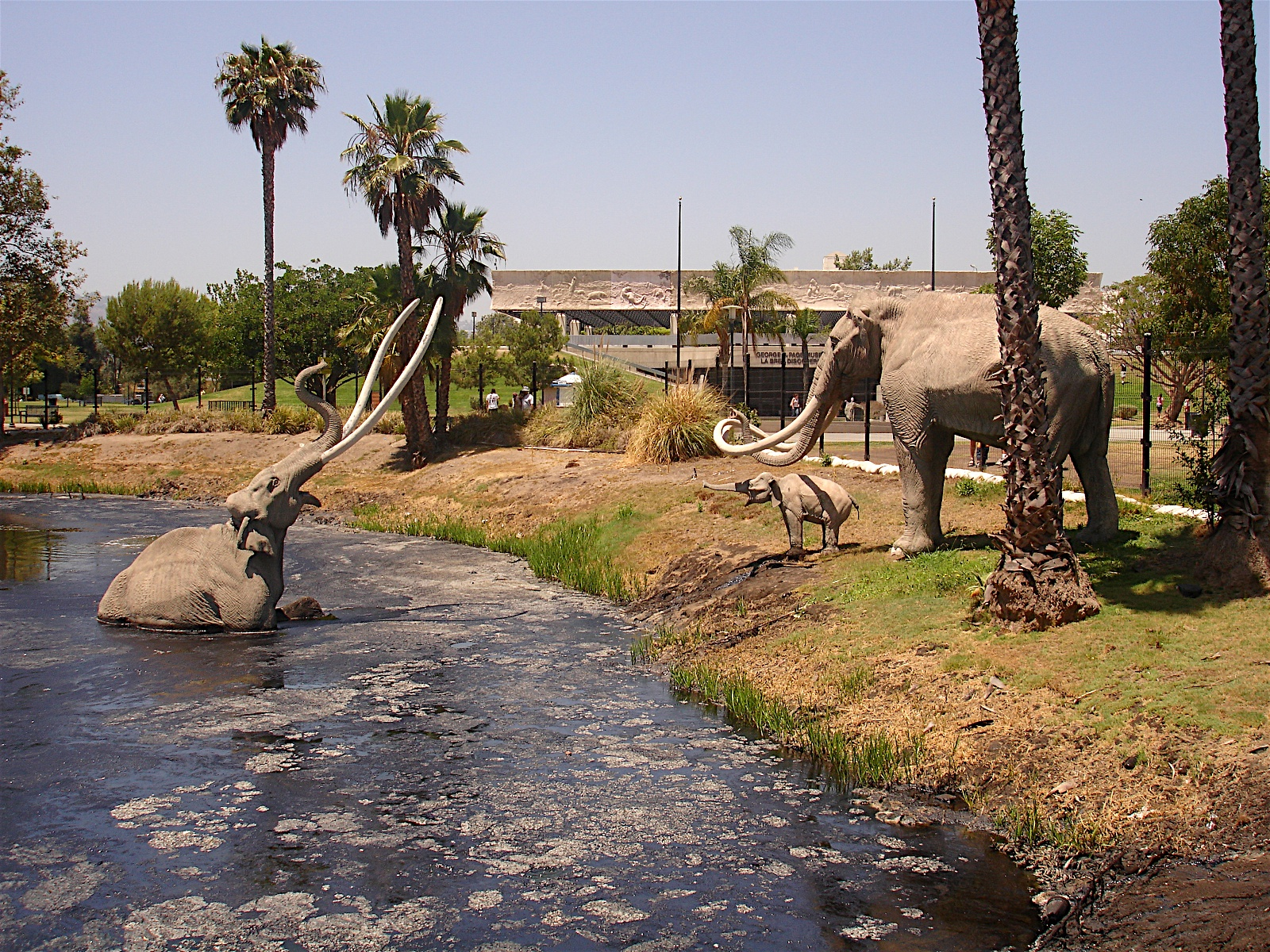 La Brea Tar Pits, Mammoths in the Tar Pits